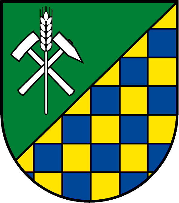 Coat of arms of Belg